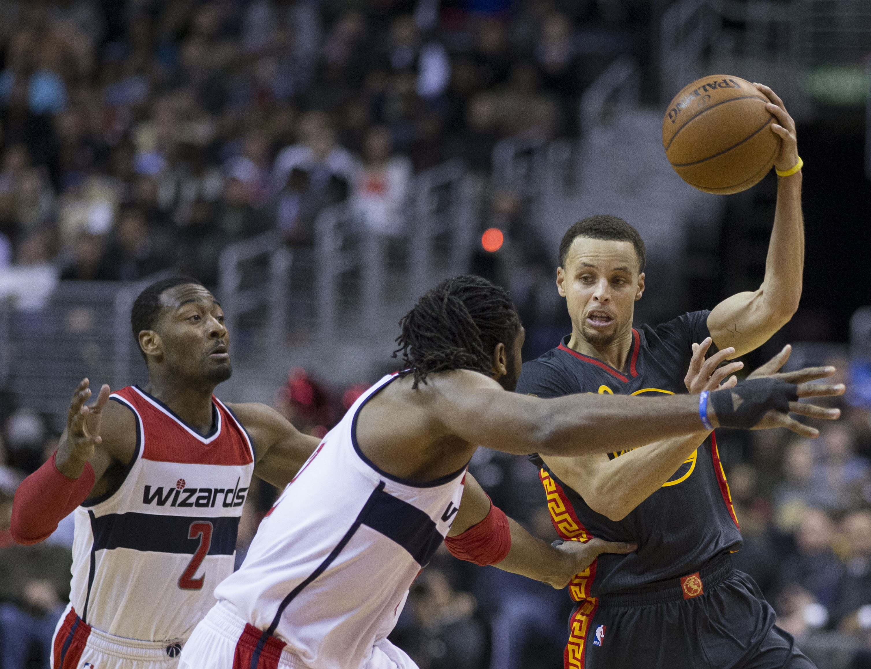 Warriors at Wizards 02/24/15